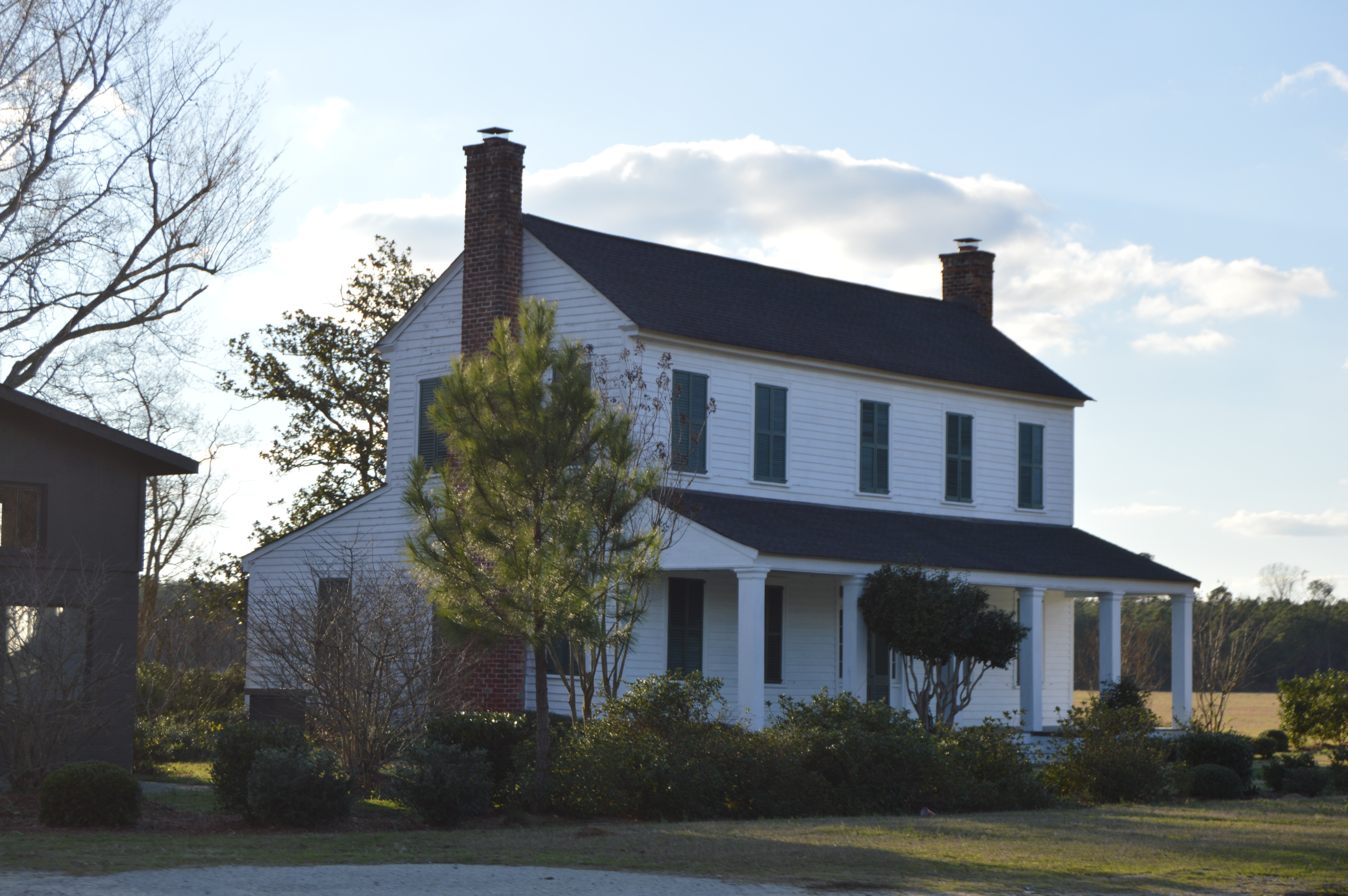 Eastern end and front of the Black Rock Plantation House, located at 7875 North Carolina Highway 87 northwest of Riegelwood in Columbus County, North Carolina, United States. Built in 1845, it is listed on the National Register of Historic Places.